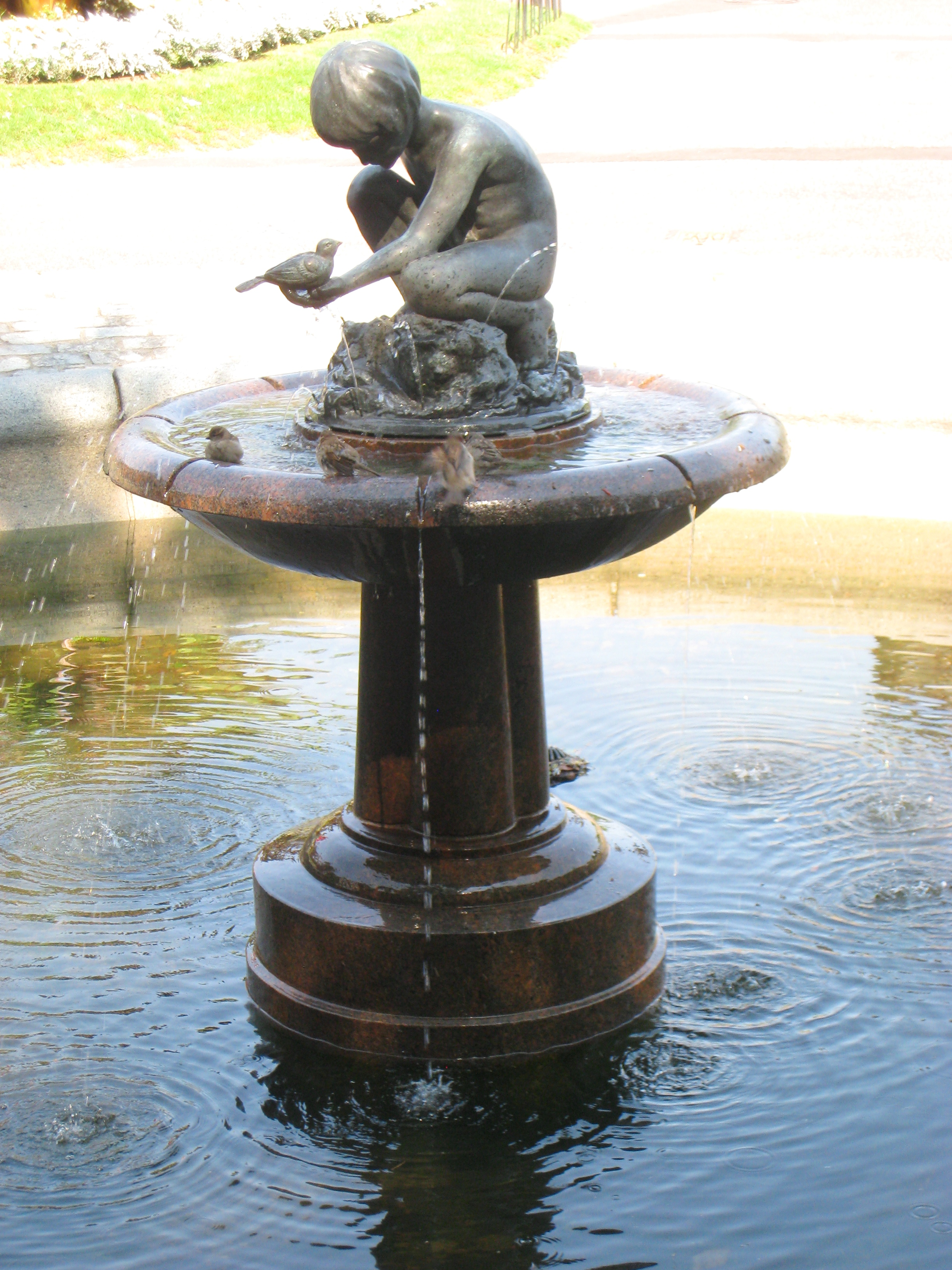 The sculpture is one of four built for fountains in the Boston Public Garden. It was originally designed by Bashka Paeff in 1934. The original sculpture was subsequently stolen, and a recast made in 1977. The second cast was of poor quality and deteriorated rapidly. The bird has been stolen. As a result, a third cast was made in 1992 by Paul King Foundry, the bird modeled using photographs. Smithsonian Institute control number 87740048. (